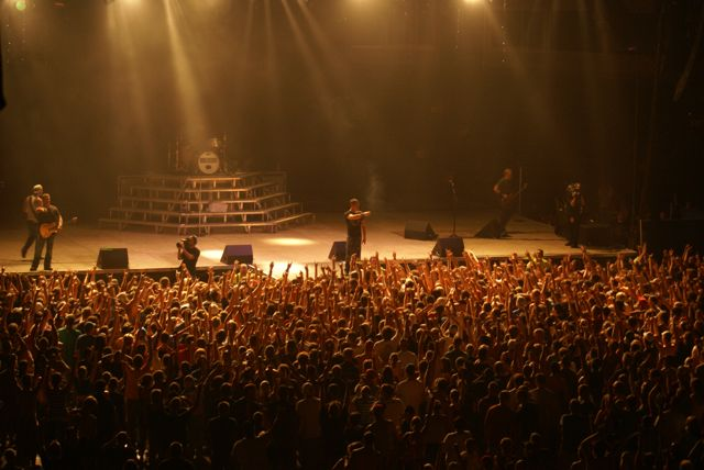 Author: Daren Searcy